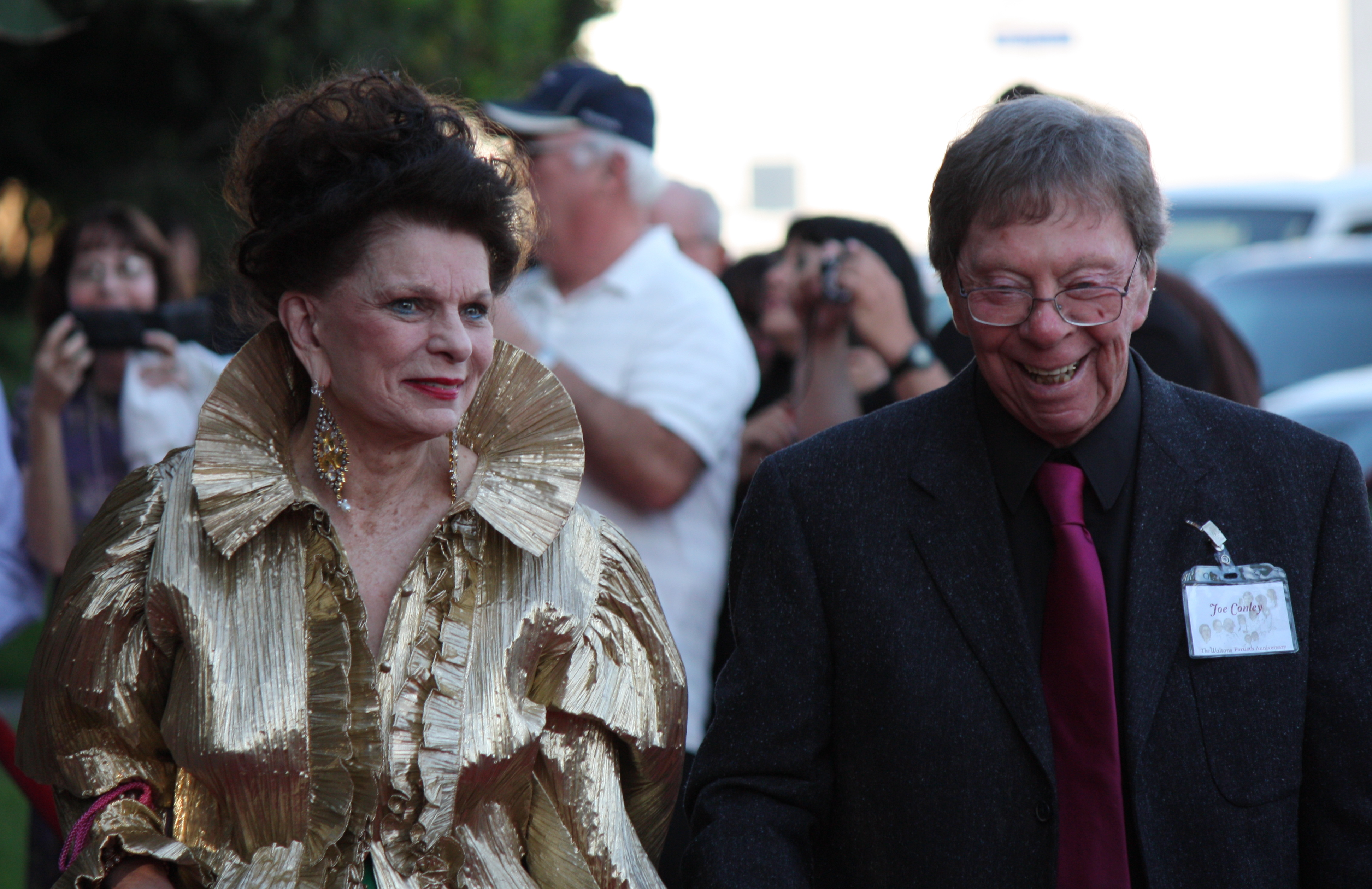 Ronnie Claire Edwards and Joe Conley at The Waltons 40th Anniversary in 2012